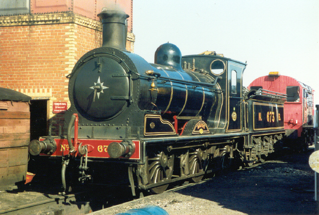 Bo'ness.